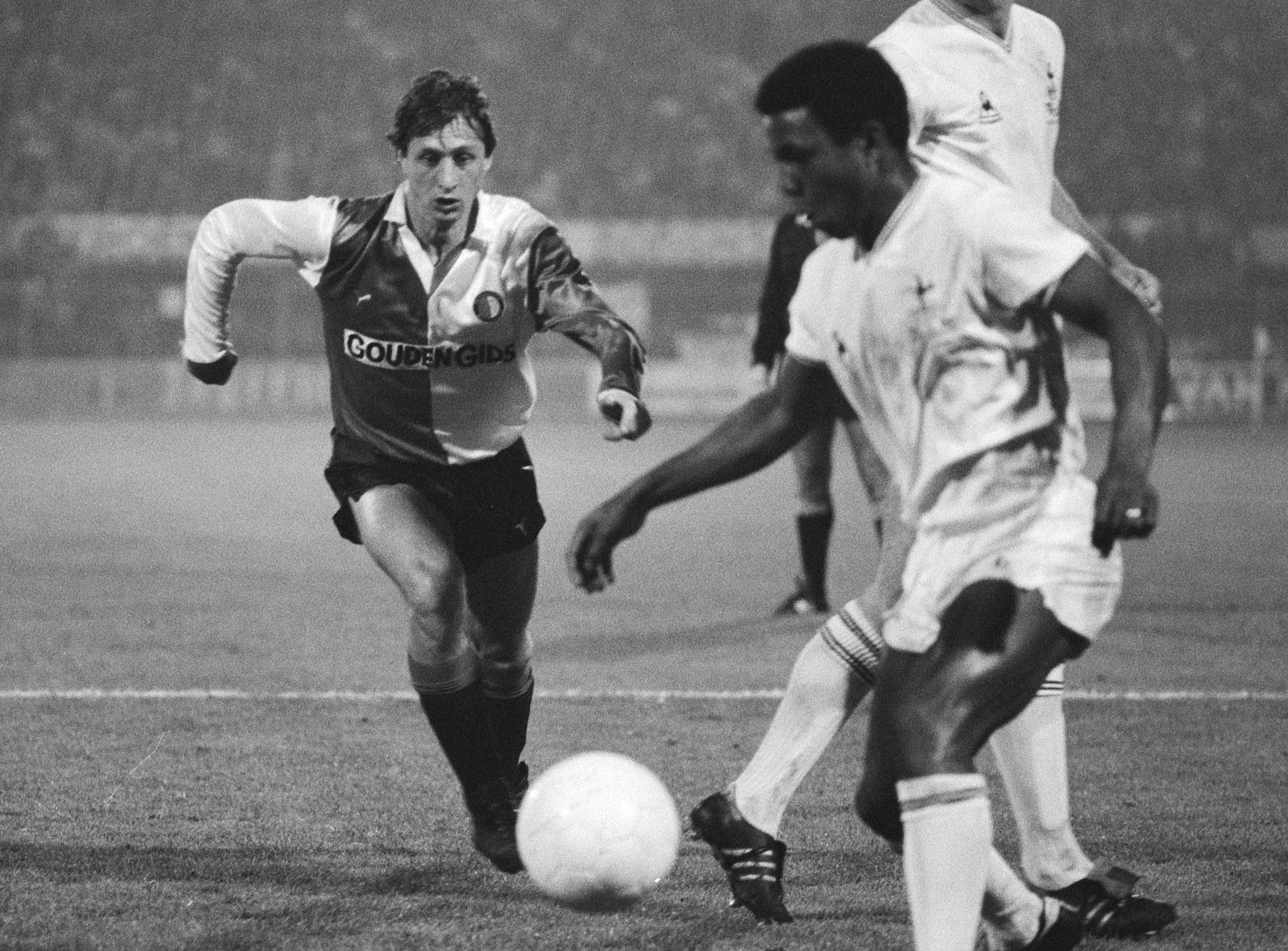 Johan Cruyff playing with Feyenoord against Tottenham Hotspur, 2 Nov. 1983